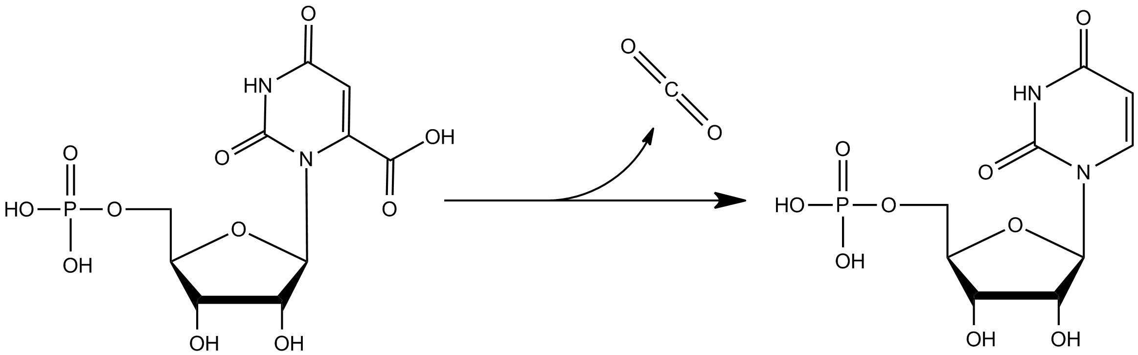 Schematic showing the reaction catalyzed by OMP decarboxylase